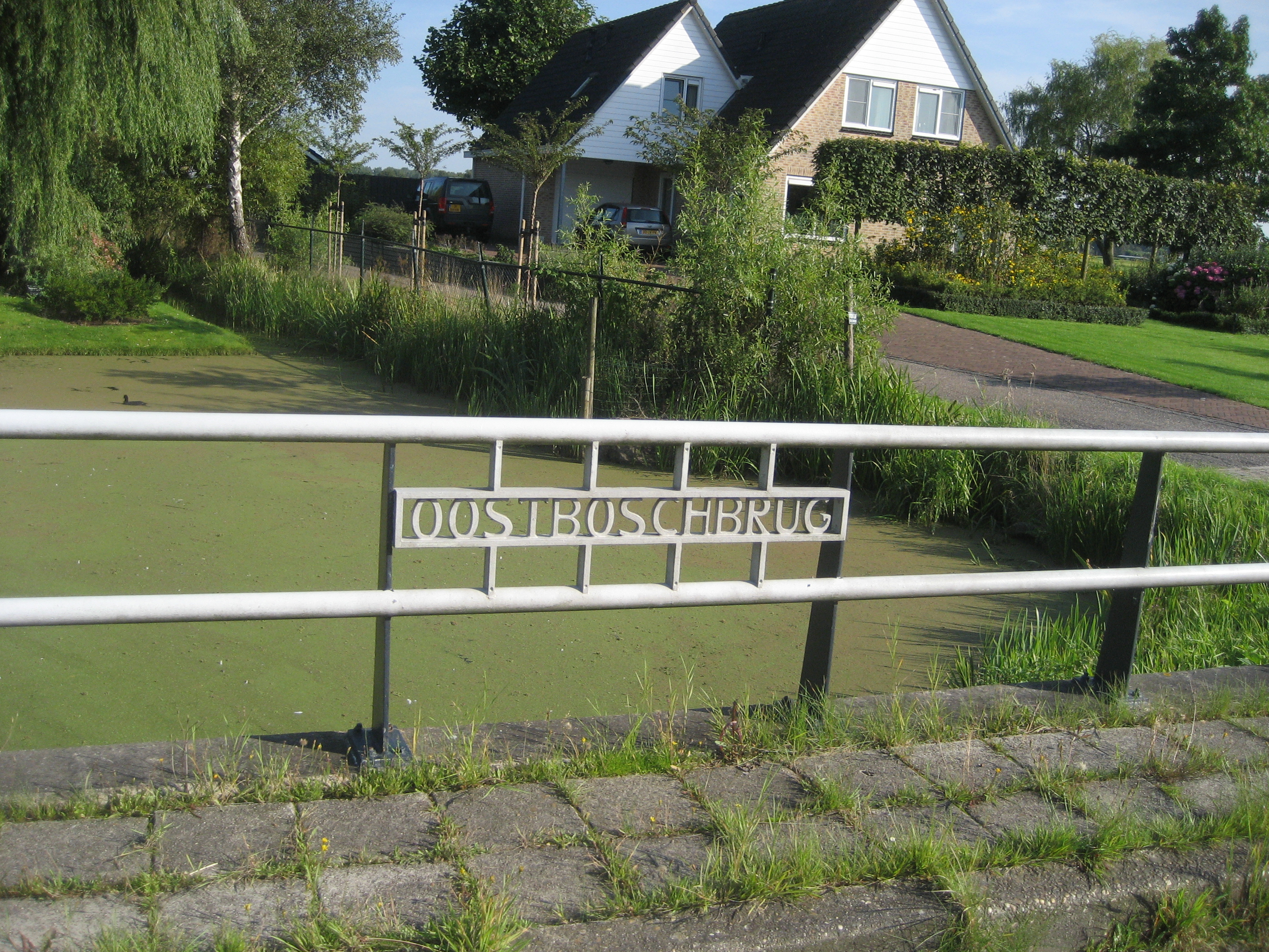 Oostboschbrug, Leidschendam (The Netherlands)